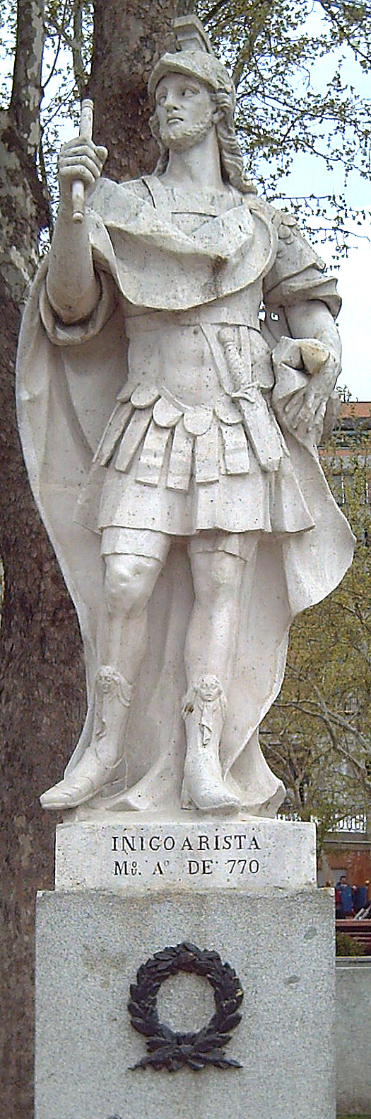 Statue of Íñigo I of Pamplona (c.781–852) at the Plaza de Oriente (square) in Madrid (Spain). Sculpted in white stone by José Oñate between 1750 and 1753.